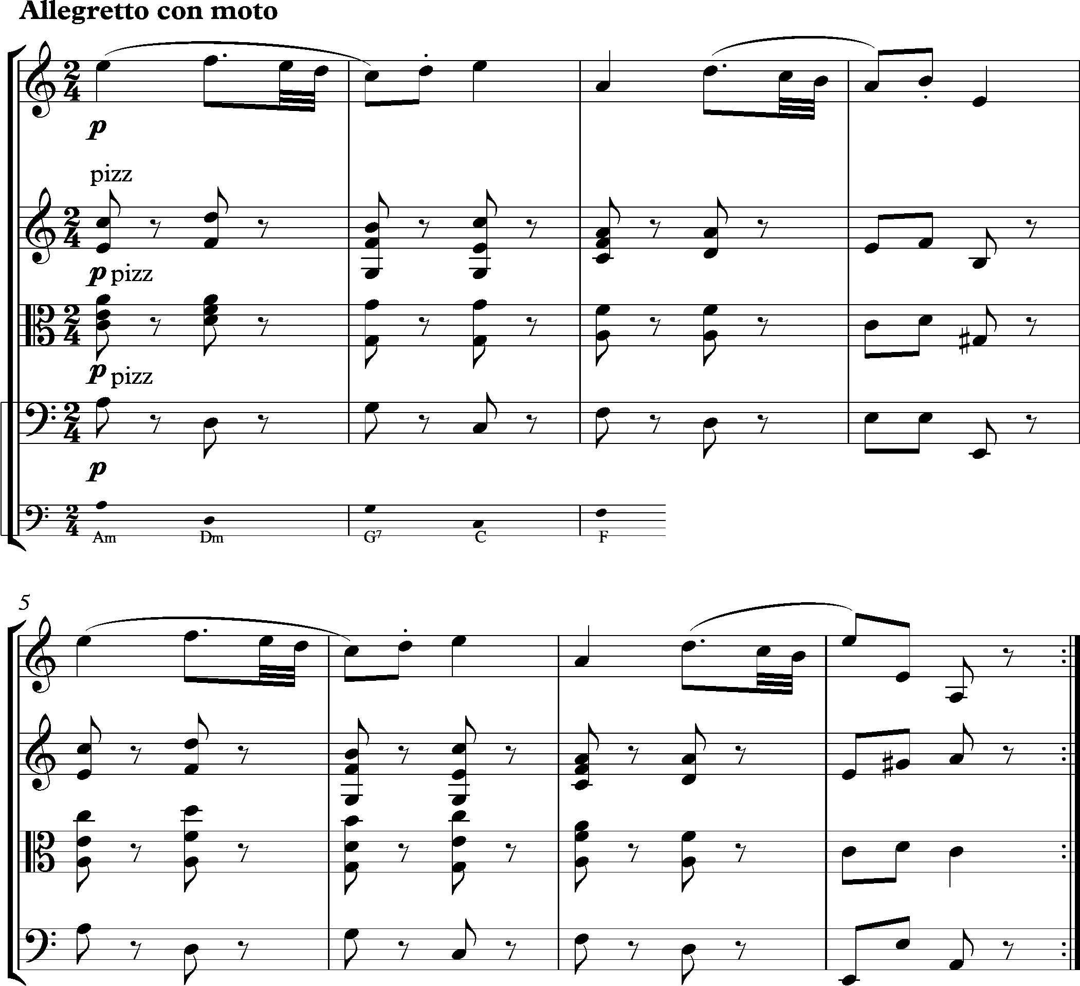 Mendelssohn String Quartet 2, 3rd movement (Intermezzo)